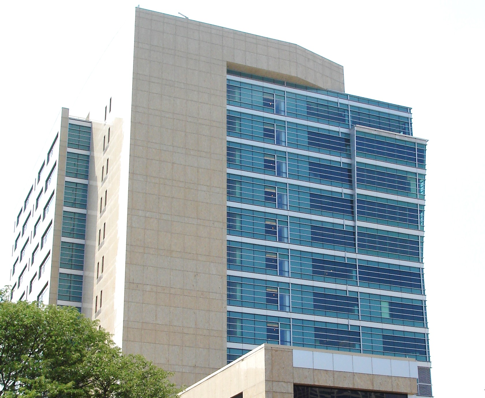 Ohio Public Employees Retirement System building in Columbus